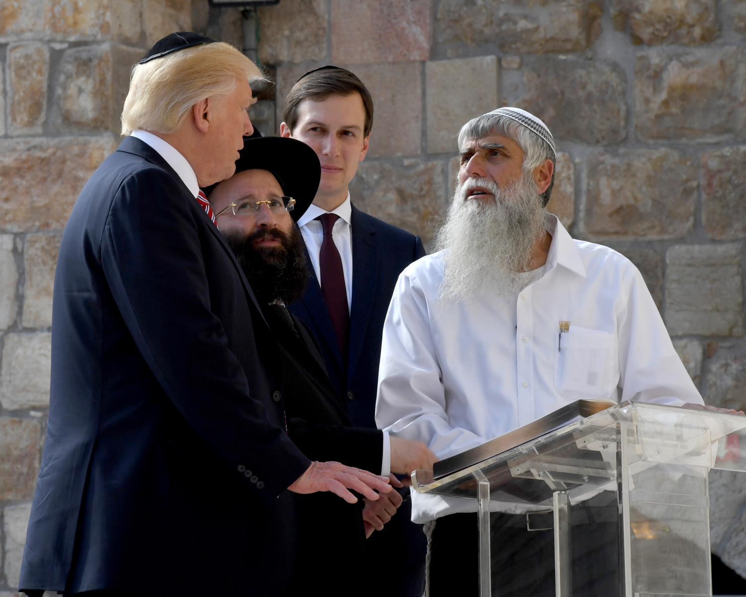 POTUS visit the Western Wall, accompanied by the Western Wall's rabbi, Shmuel Rabinovitz and Mordechai "Solly" Eliav, Director General of the Western Wall Heritage Foundation. Jerusalem, May 22, 2017 Photo credit: Matty Stern/U.S. Embassy Tel Aviv President Trump visit to Israel, May 2017.